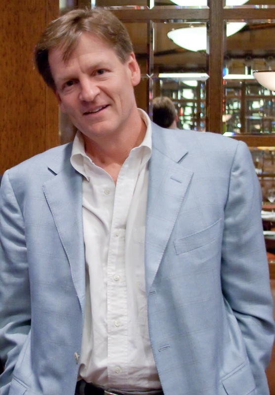 Michael Lewis, author of the best-sellers Moneyball, The New, New Thing, Liar's Poker, and others at a Hudson Union Society event in 2009.